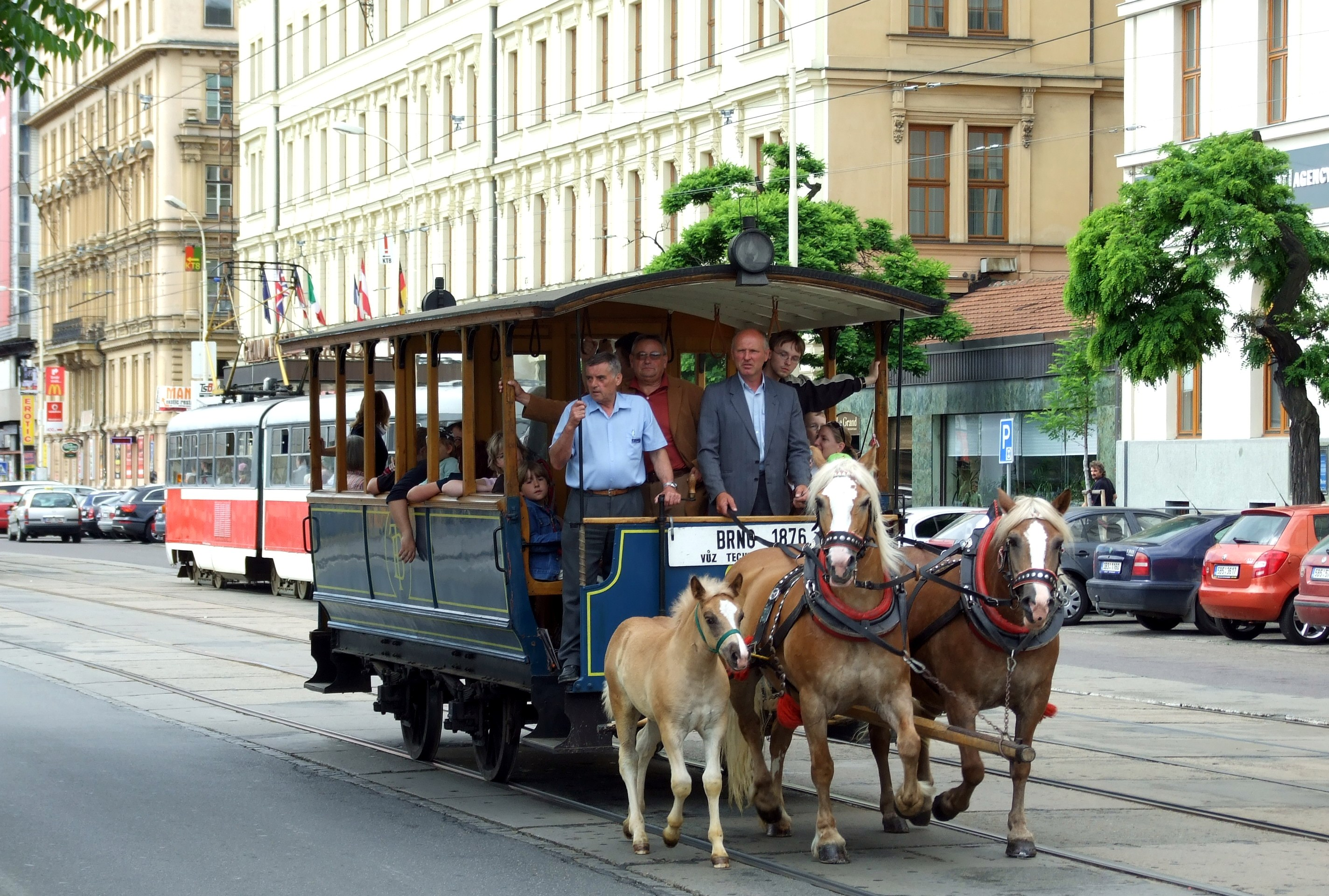 Horse tram in Brno heading from main train station (Hlavní nádraží) to Malinovské náměstí square.